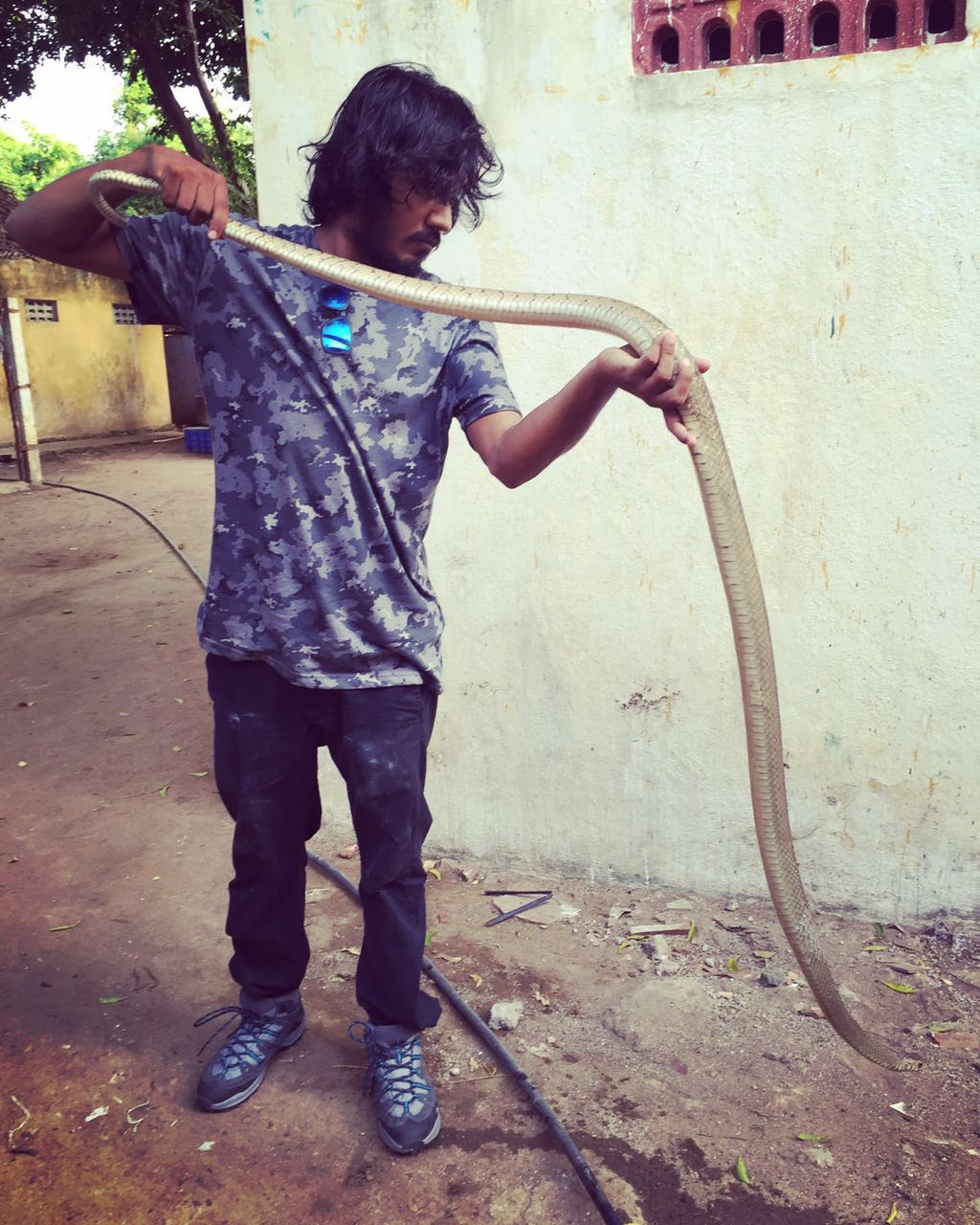 Shravan rescuing a snake